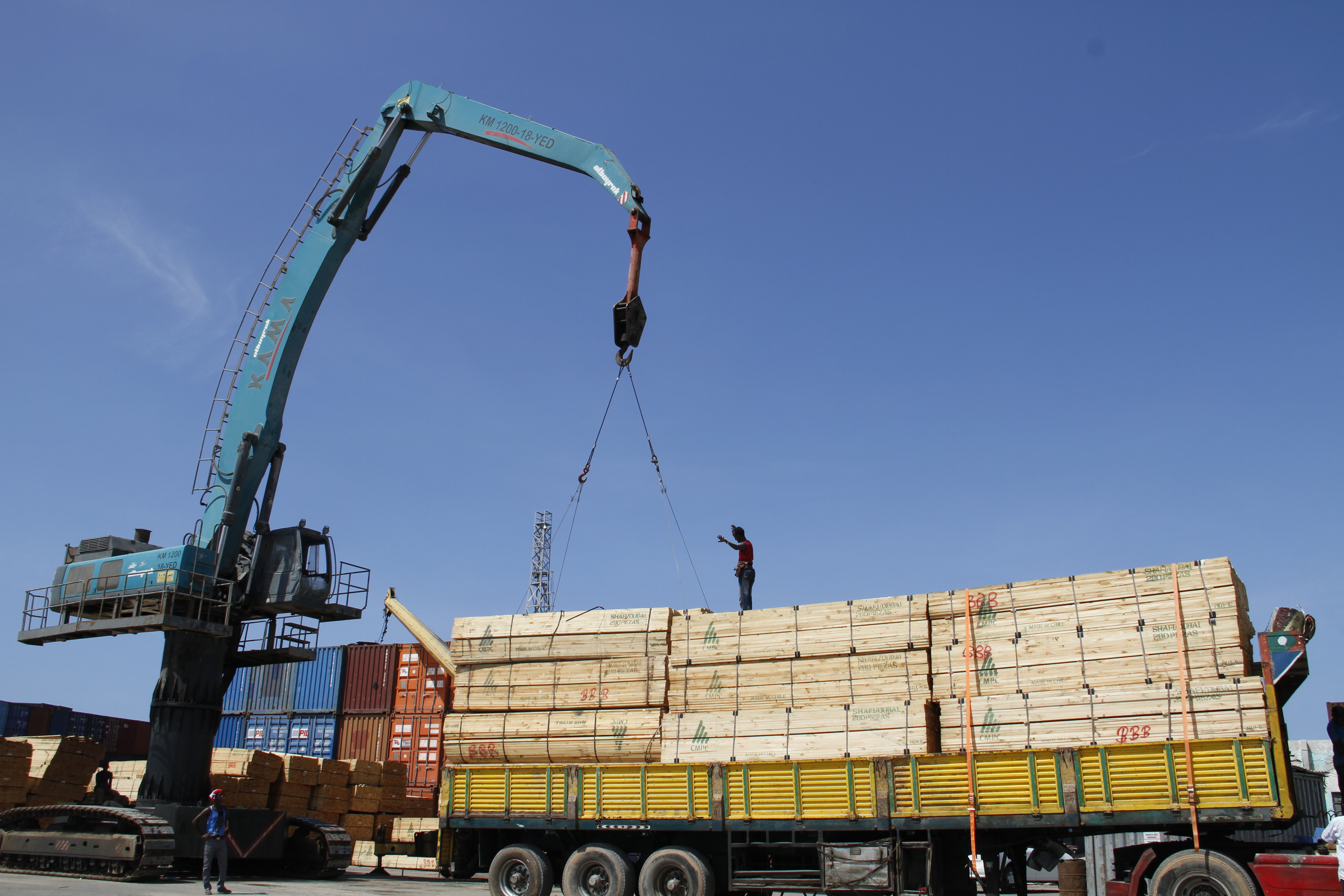 A man controls a cargo handling equipment as they offload at the Sea port of Mogadishu, Somalia This is an image of "African people at work" from Somalia